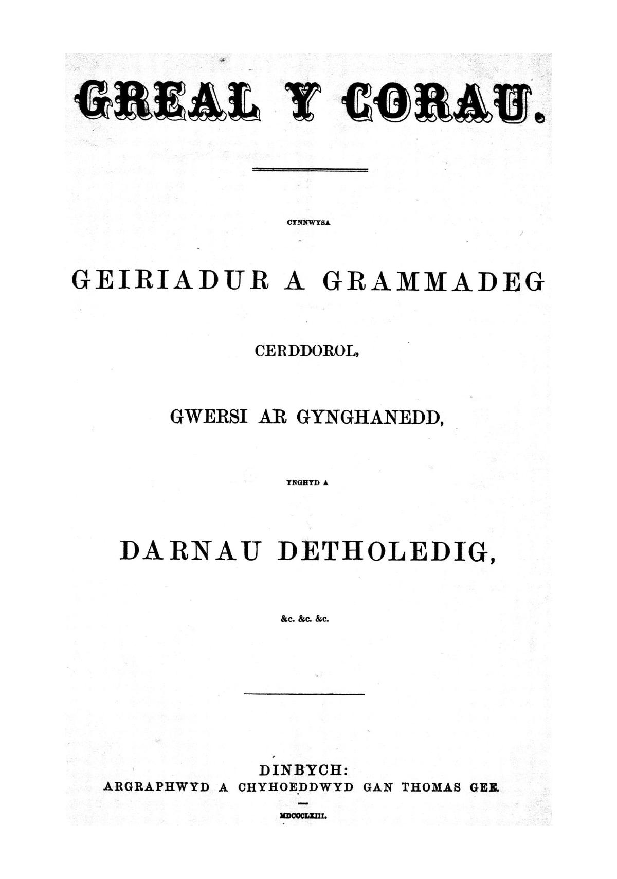 The monthly Welsh language music periodical of the Welsh Choral Union. The periodical's main contents were articles on music, musicians and musical grammar, alongside news and reviews from the choirs and musical festivals and a musical supplement with each issue. The periodical was edited by John Williams (Ab Alaw) and Lewis William Lewis (Llew Llwyfo, 1831-1901) until October 1861 and subsequently by Ab Alaw, Llew Llwyfo and Edward (Jones) Stephen (Tanymarian, 1822-1885).